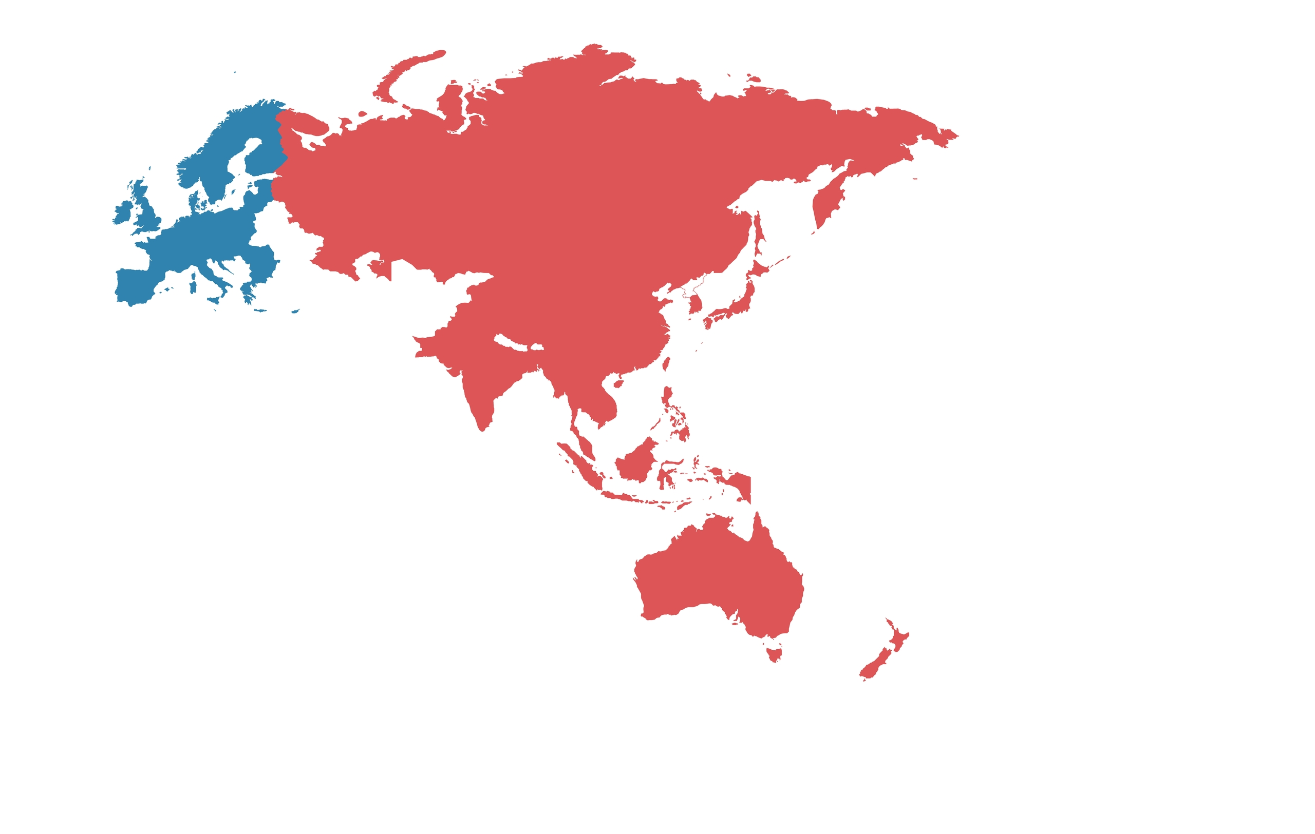 This is an ASEM map consisting of 53 ASEM Partners' territory.